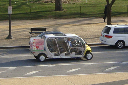 GEM e6s neighborhood electric vehicle at the National Mall, Washington, D.C.